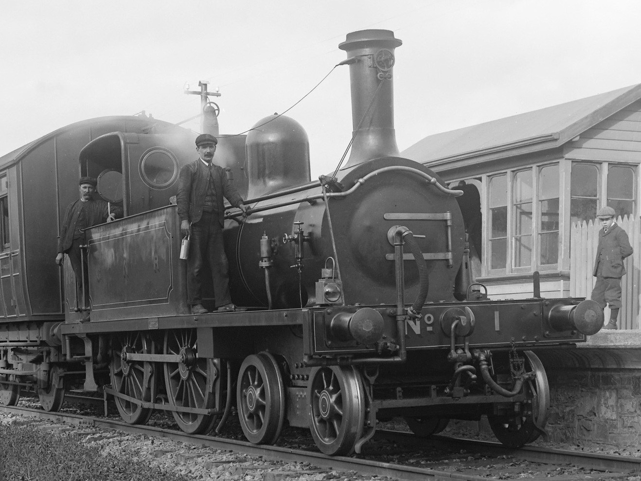 Railway station at Irish street Halt. 1909 Photograph by H.T. Allison PRONI Ref: D2886/A/1/2/5